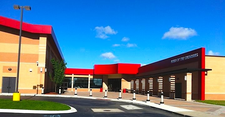 LSHS new building